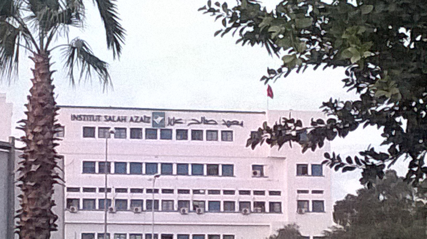 C' est le centre de référence dans la Tunisie pour la surveillance, le diagnostic et le traitement des cancers.